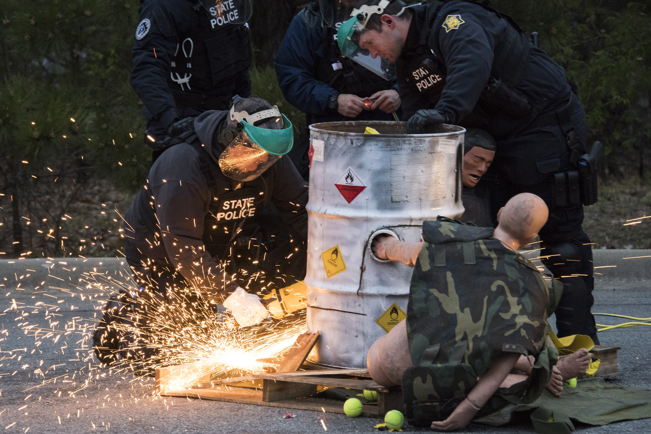 Arkansas State Police officers practice cutting open a “sleeping dragon” barrel to remove protesters during Operation Phalanx, held March 30-31, 2019, at Little Rock AFB, Arkansas. The operation is a joint exercise hosted by the Arkansas National Guard for civil and military organizations to train their members’ tactics and techniques for responding to a civil disturbance.